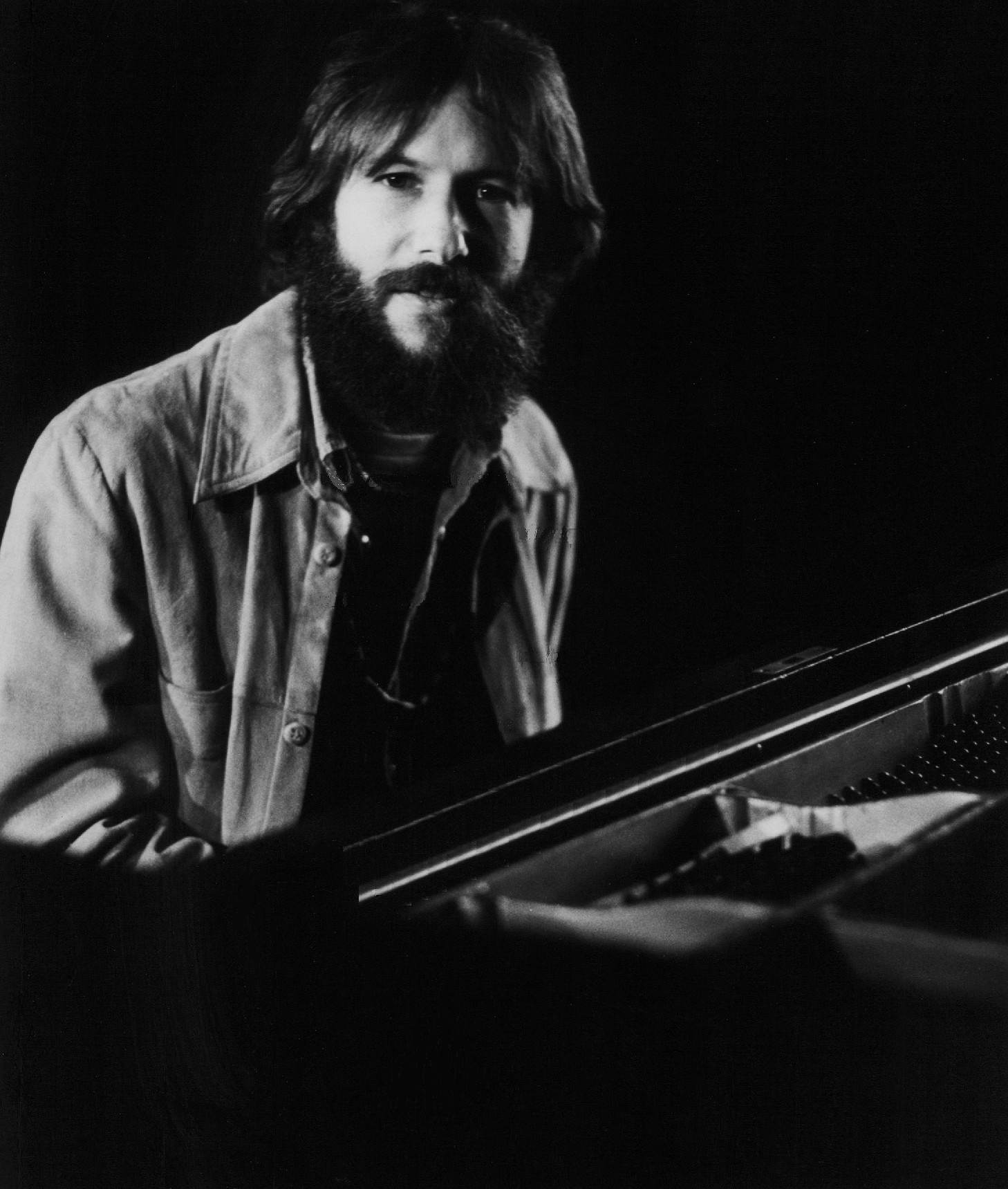 Photo of musician Corky Siegel.